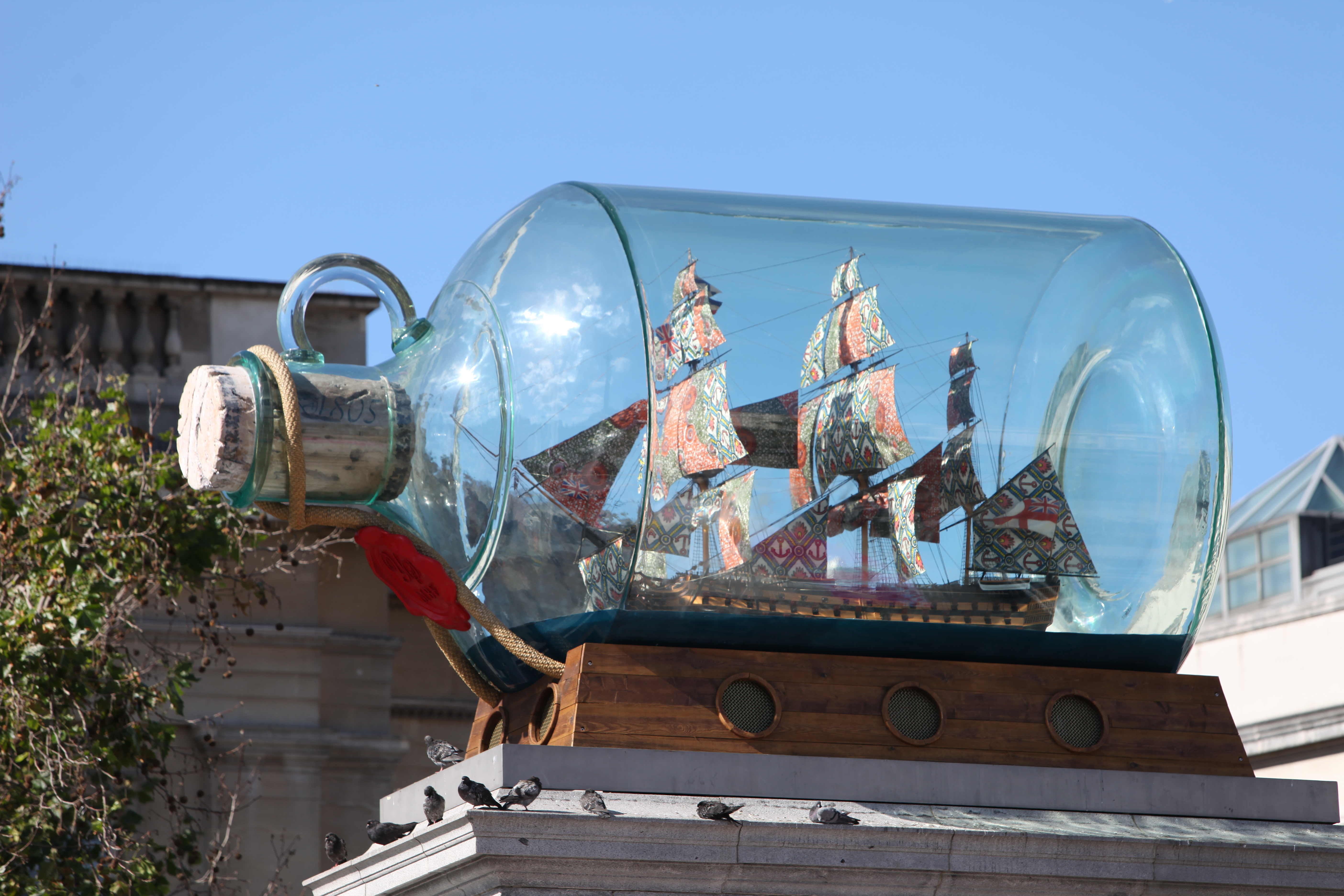 Nelson's Ship in a BottleYinka Shonibare, MBEb. 1962, London'Nelson's Ship in a Bottle' is a sculpture of Nelson's flagship 'HMS Victory'.The sculpture considers the relationship between the birth of the British Empire, made possible in part by Nelson's victory at the Battle of Trafalgar,and multiculturalism in Britain today."For me it's a celebration of London's immense ethnic wealth,giving expression to and honouring the many cultures and ethnictiesthat are still breathing precious wind into the sails of the United Kingdom."Yinka Sonibare, MBEThe sculpture is 3.25 metres high and 5 metres long and weighs 4 tons.